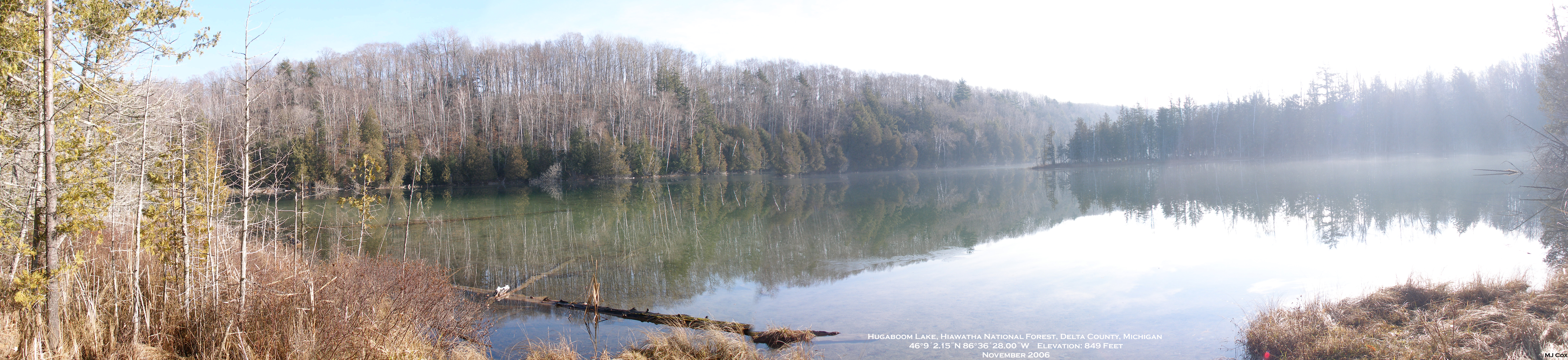 Panorama of Hugaboom Lake, Delta county, Michigan